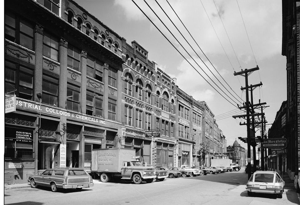 Jackson Avenue warehouses in Knoxville, Tennessee, USA. Original description: LOOKING EAST FROM 127-125 JACKSON AVENUE (INDUSTRIAL COLLOIDS AND CHEMICALS, INC.) TO SULLIVAN'S SALOON (in background, with domed roof) - Jackson Avenue Warehouse District, 101-131 & 120-122 Jackson Avenue, Knoxville, Knox County, TN